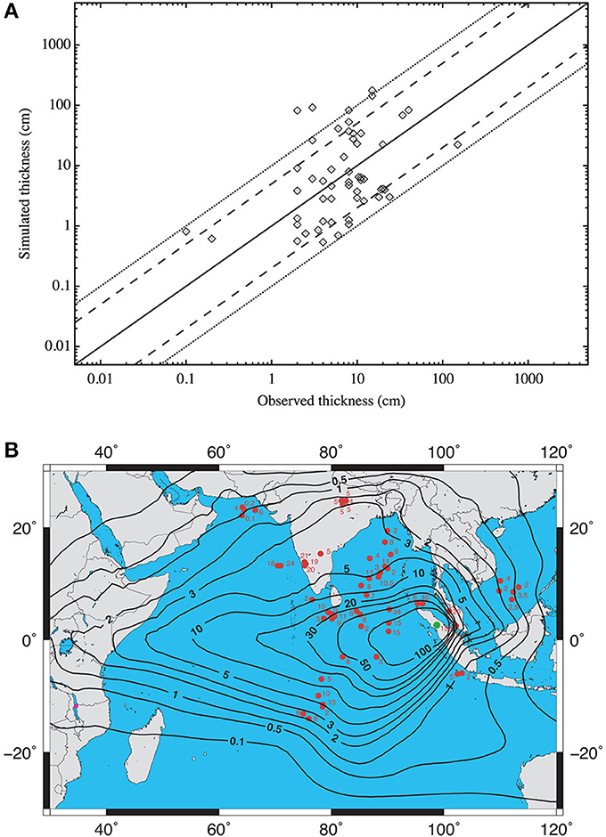 A) Comparison between the thicknesses from the best-fit FALL3D simulations and the field data, at each of the 57 sampling points (see Table S1 in Supplementary Material for grid references and thicknesses). The solid line represents a perfect agreement, and the dotted and dashed black lines mark the region that is different from observed thicknesses by a factor 10 (1/10) and 5 (1/5), respectively. (B) Isopach maps showing YTT ash thickness in centimeters (intervals 0.1, 0.2, 0.5, 1, 2, 3, 5, 10, 20, 30, 50, 100 cm), as modeled using FALL3D.